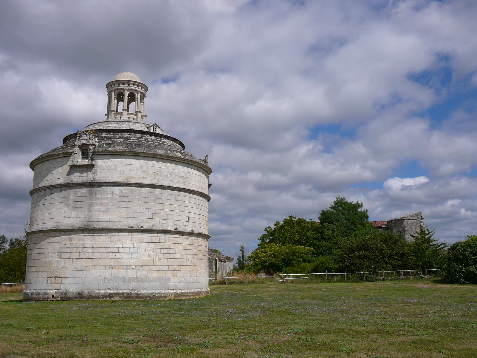 Dovecote tower of Montierneuf in Saint-Agnant. Charente-Maritime (17), Poitou-Charentes, France, Europe.